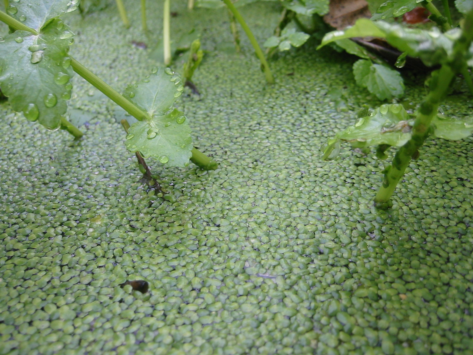 Lemnaceae Photo taken in Galicia, Spain